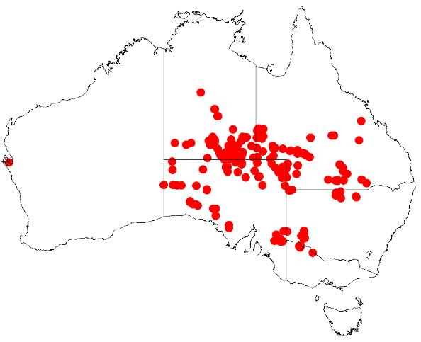 Scaevola depauperata occurrence data from Australasian Virtual Herbarium downloaded 12 May 2019 (no doi)